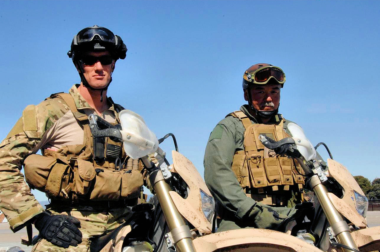 131st Rescue Squadron - Pararescue Jumpers